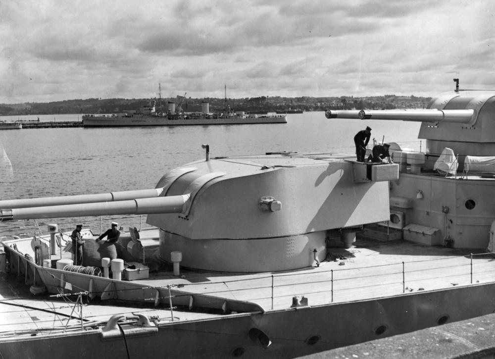 Forward 8-inch gun turrets on Australian heavy cruiser HMAS Canberra.